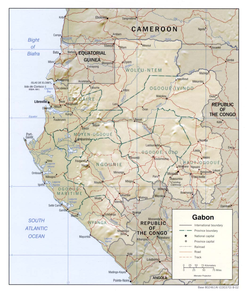 Shaded relief map of Gabon.